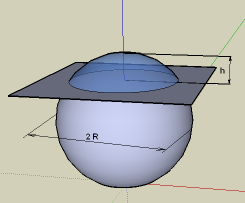 sphere